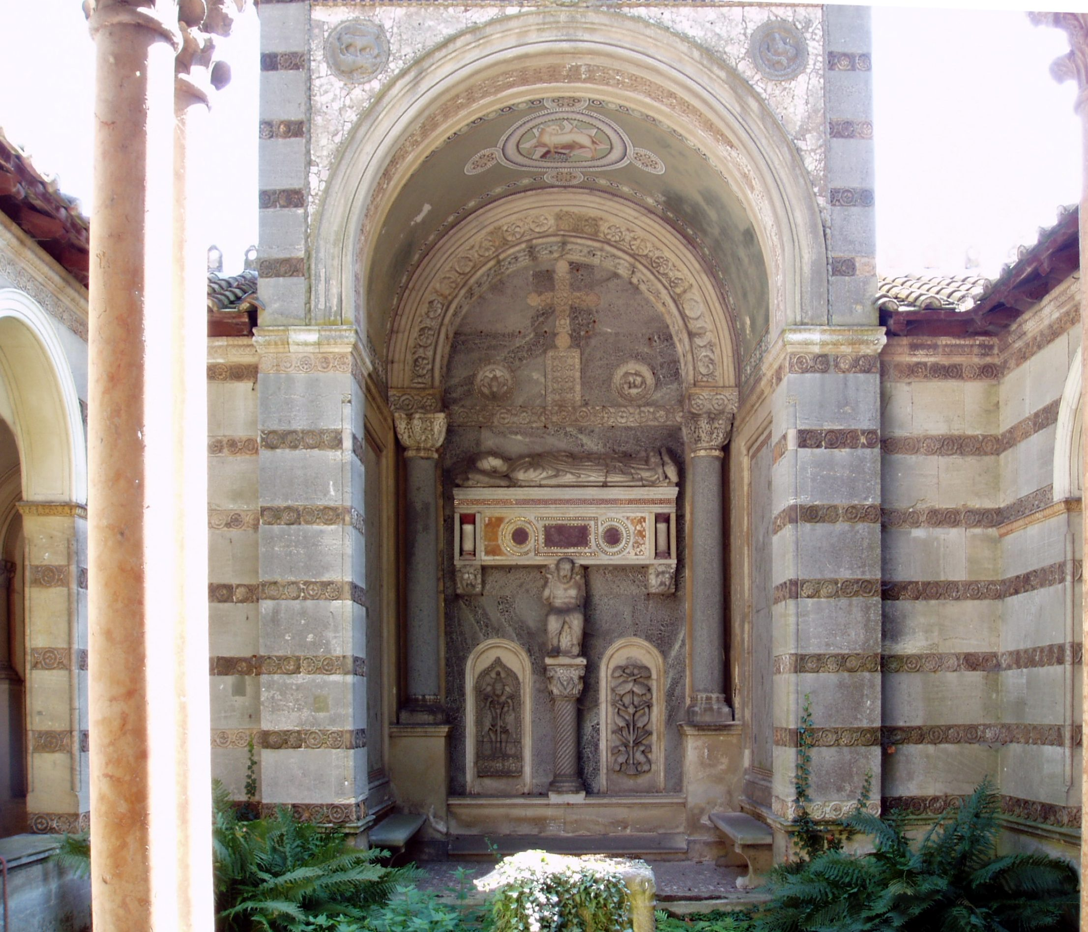 Apse with the sarcophagus of Pietro d'Abano (end of 14th century) in the park pavilion named “Klosterhof” (“monastery courtyard”) in the park of Glienicke Palace, Berlin. 1850 Prince Carl of Prussia gave order to build the garden pavilion “monastery courtyard”. It served as a site for his collection of medieval art.